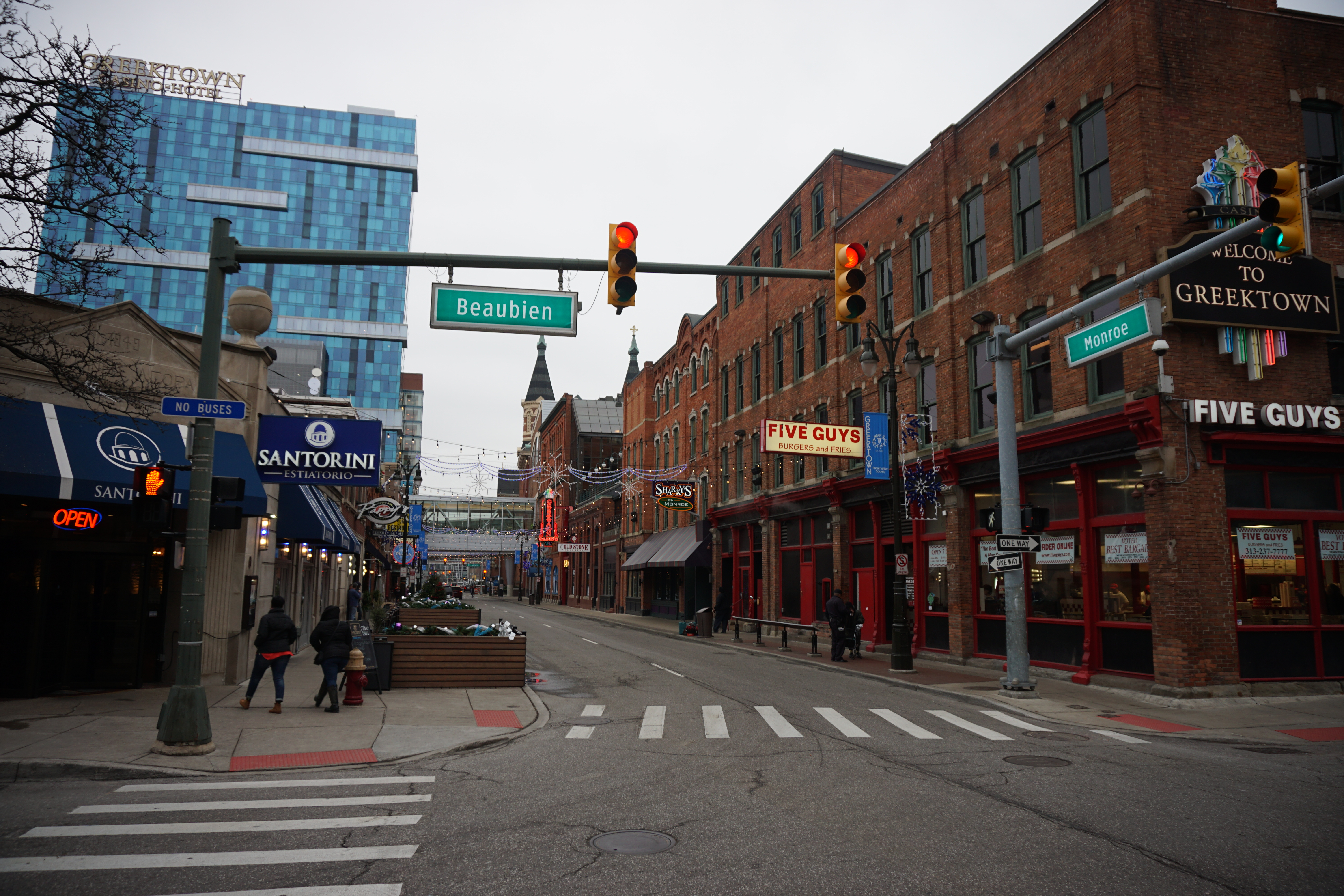 Monroe Street in Greektown in Detroit, Michigan (United States).